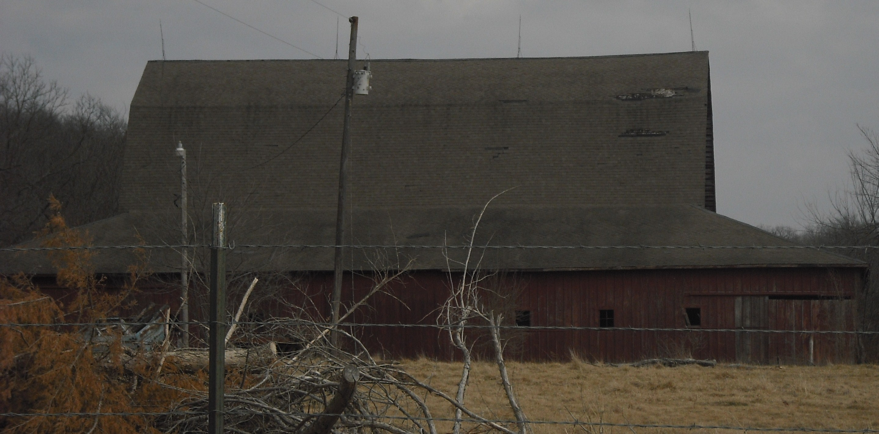 An old barn located a quarter mile south of the Grover intersection in northwestern Douglas County, Kansas.